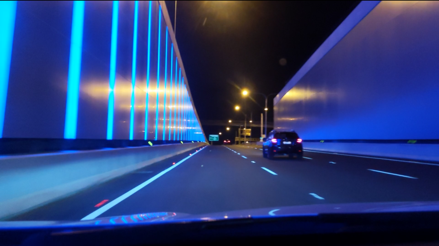 M4 East Tunnel entrance, heading east from Concord, at night